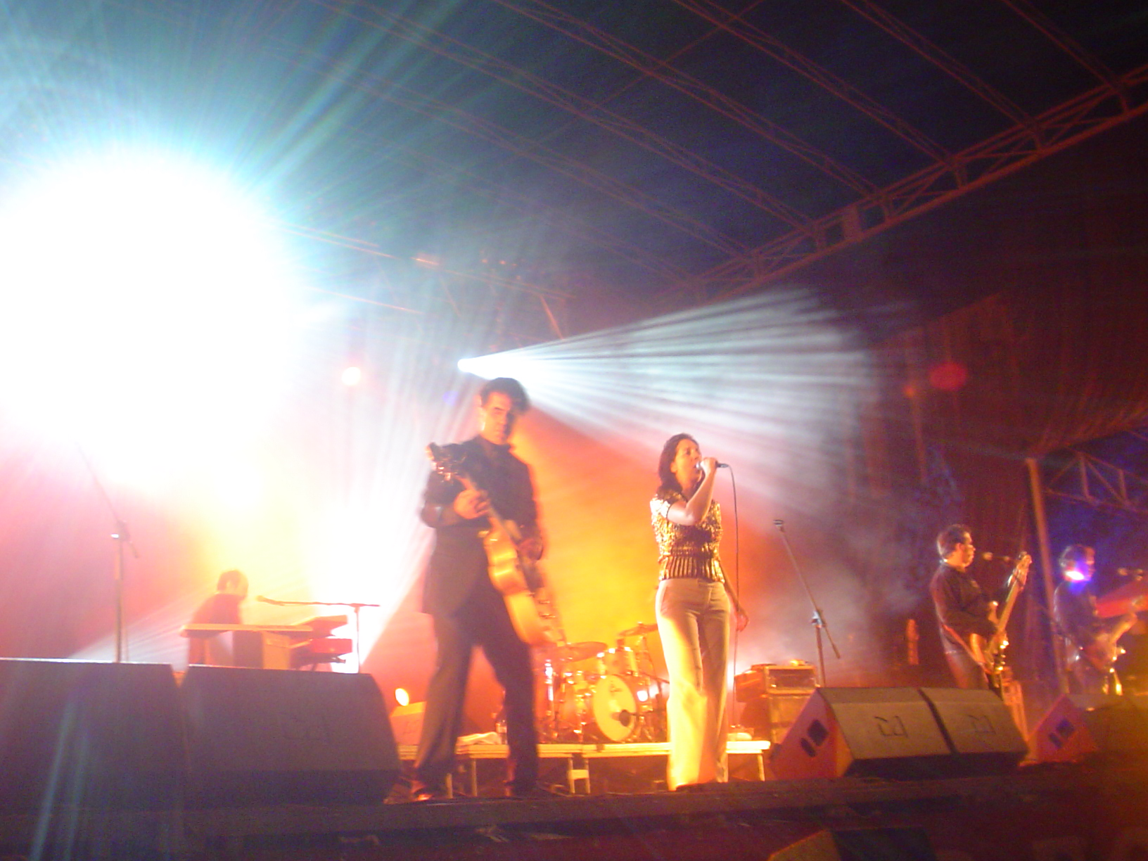 Rádio Macau live at Festival da Juventude, Santa Maria da Feira, Portugal